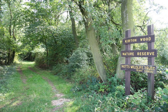 Kirton Wood Nature Reserve.